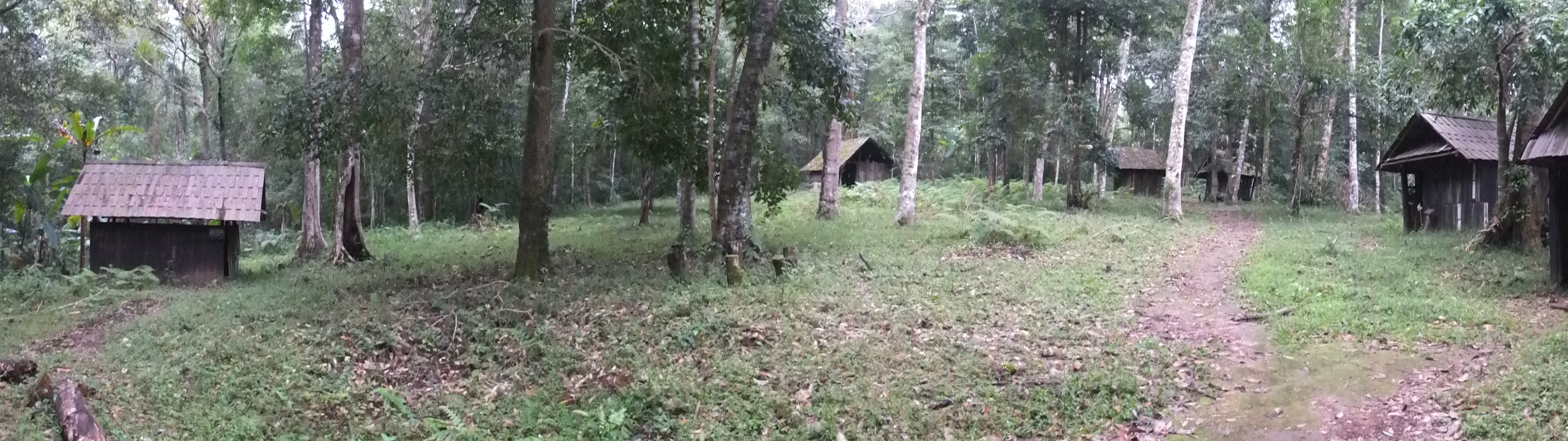 อุทยานแห่งชาติภูหินร่องกล้า